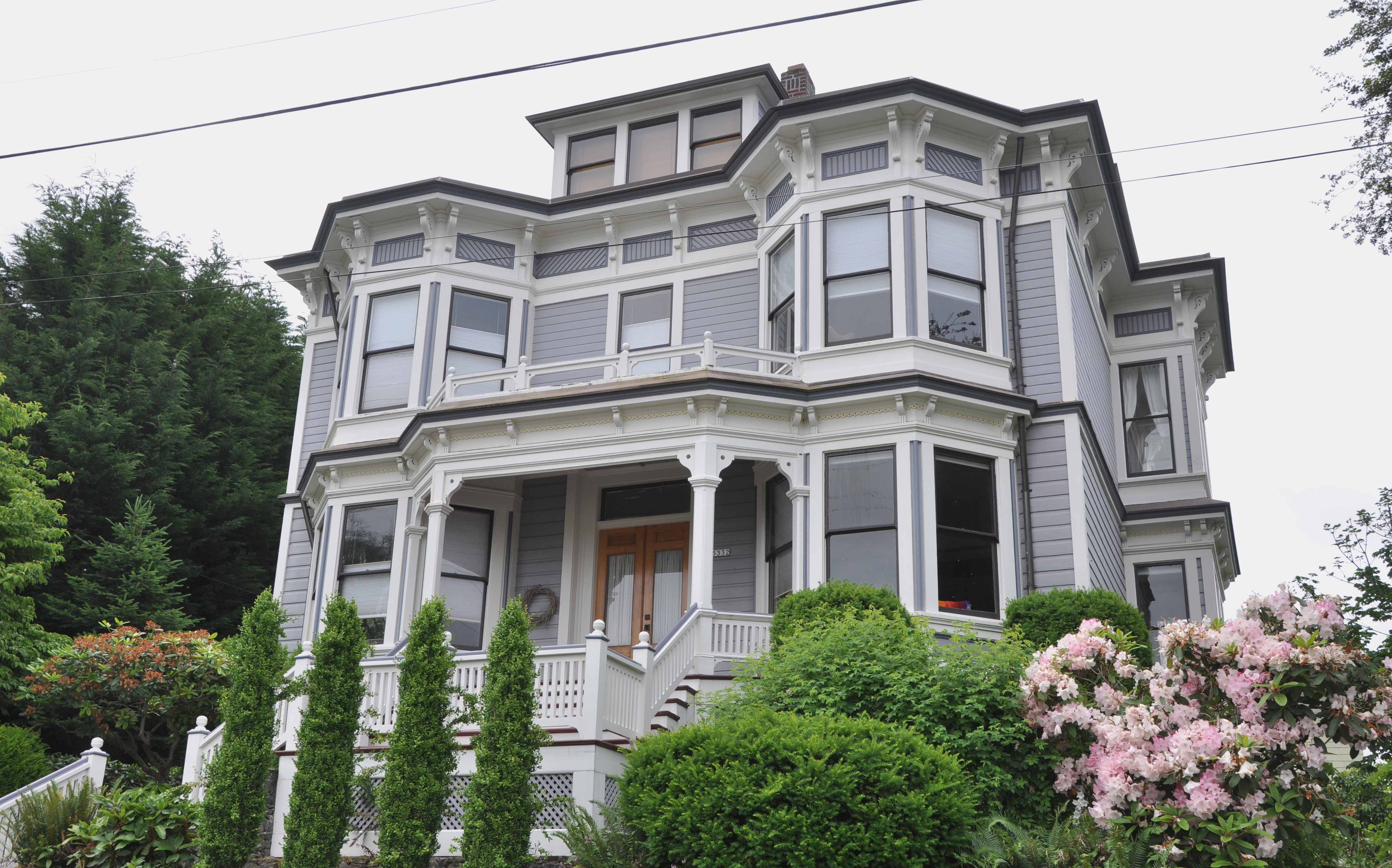 William E. Brainard House in Portland in the U.S. state of Oregon. The structure is listed on the National Register of Historic Places.